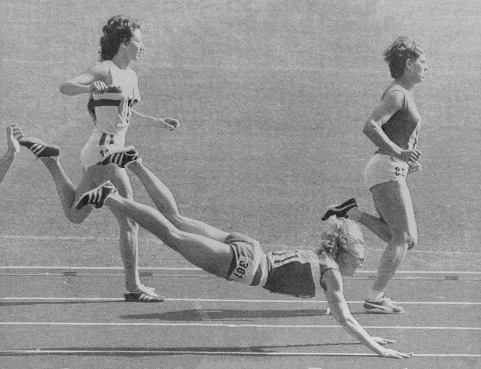 LG11 1972 Wire Photo PATTY JOHNSON ANN WILSON KARIN BALZER Olympic Track Dive